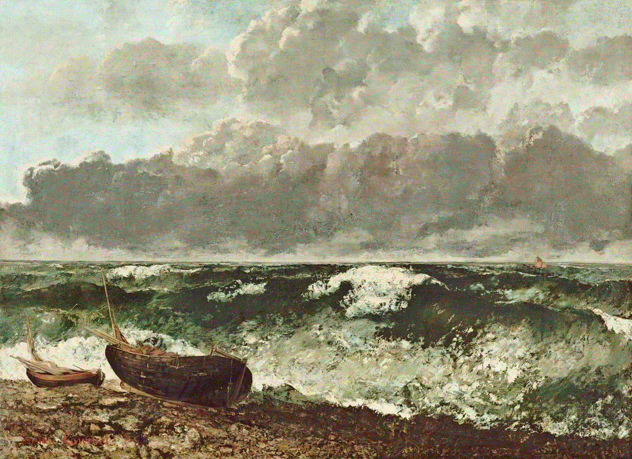 a painting by Gustave Courbet, painted in 1870, 117x160,5 cm, owned by Musée d'Orsay